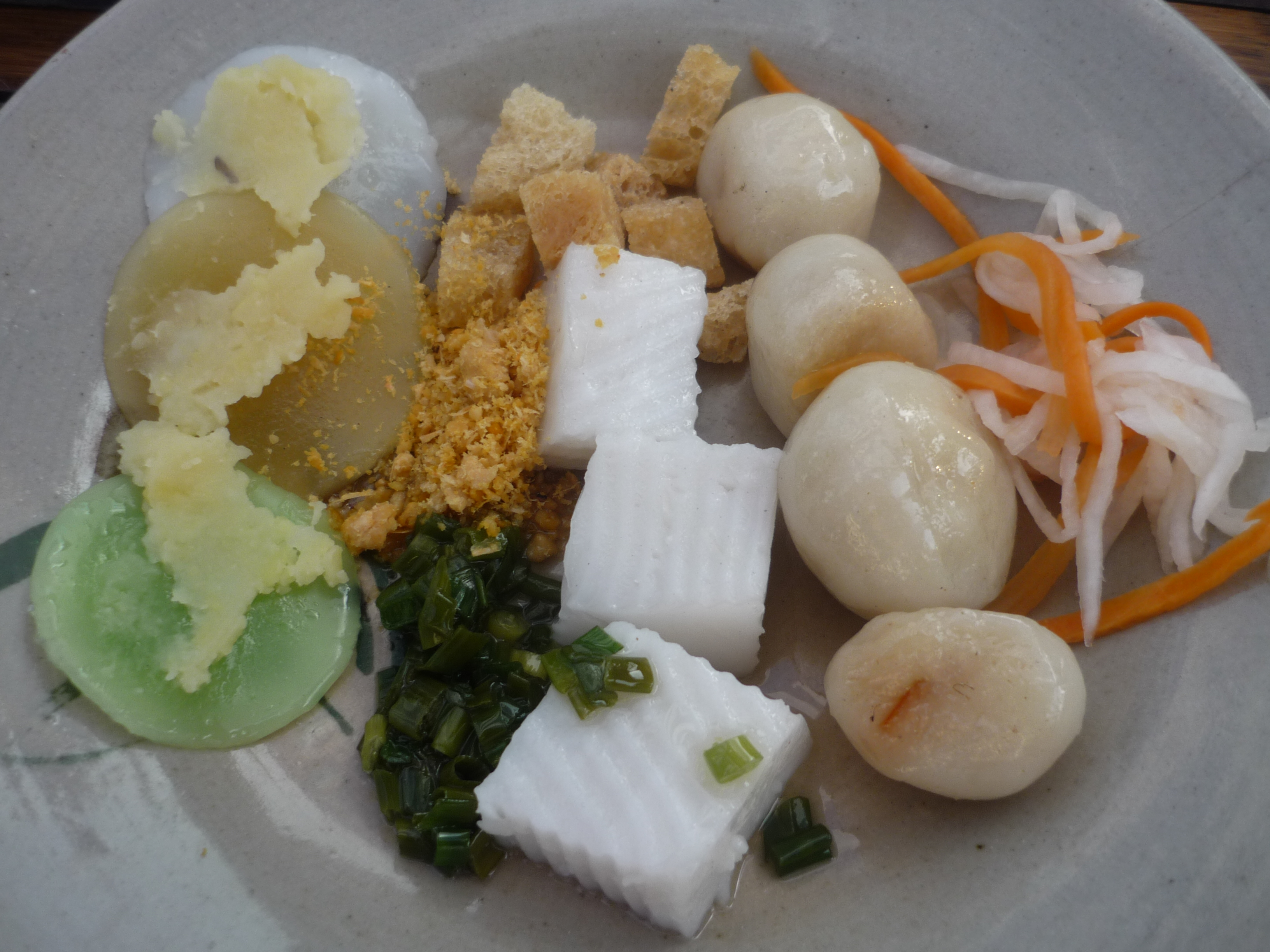 Hue Traditional cakes